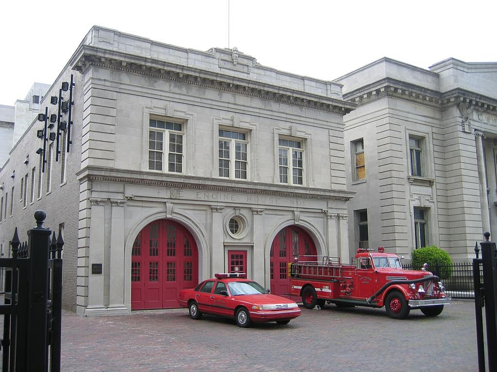 Old fire engine at the Fire Museum in Memphis, Tennessee